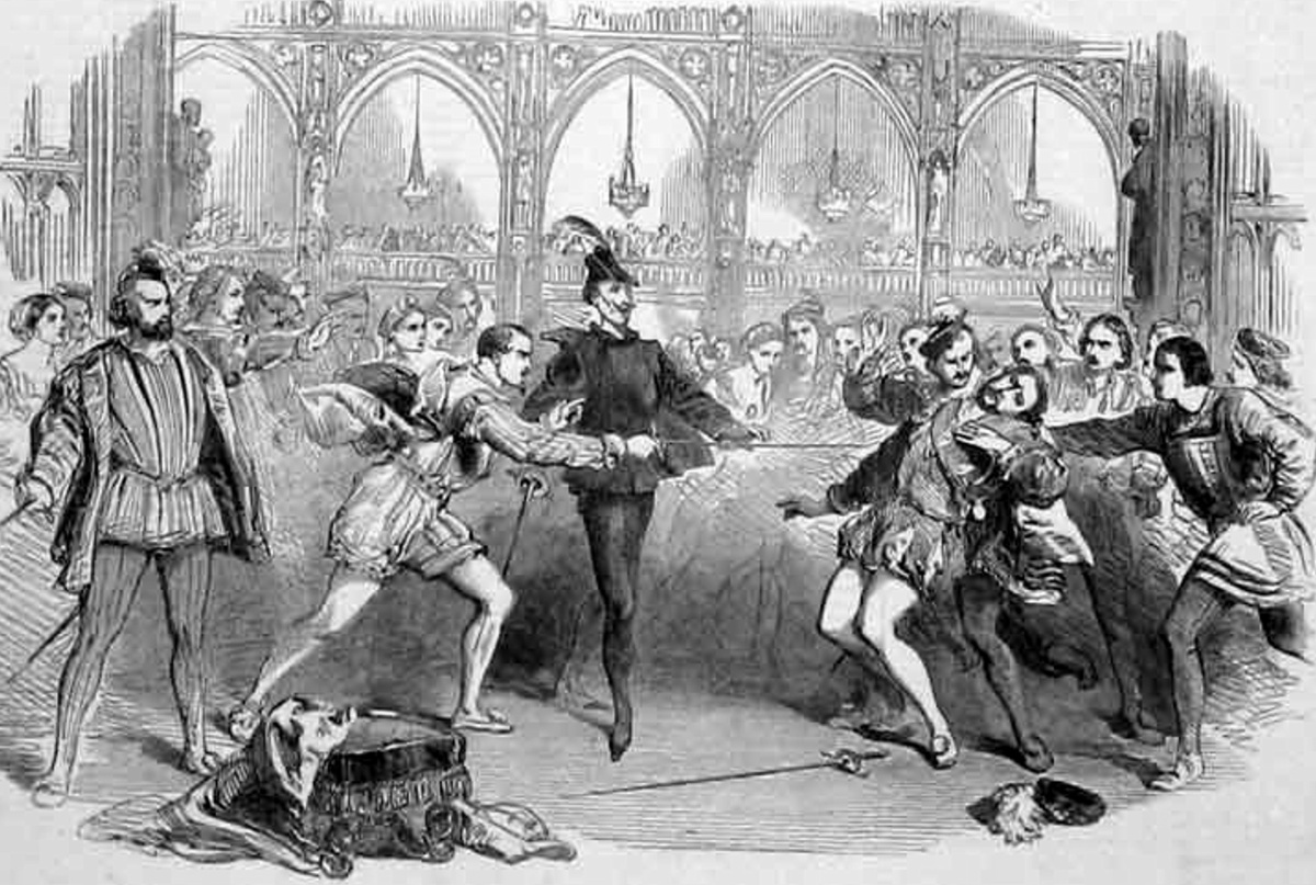 Scene from Spohr's "Faust" at the Royal Itallian opera.